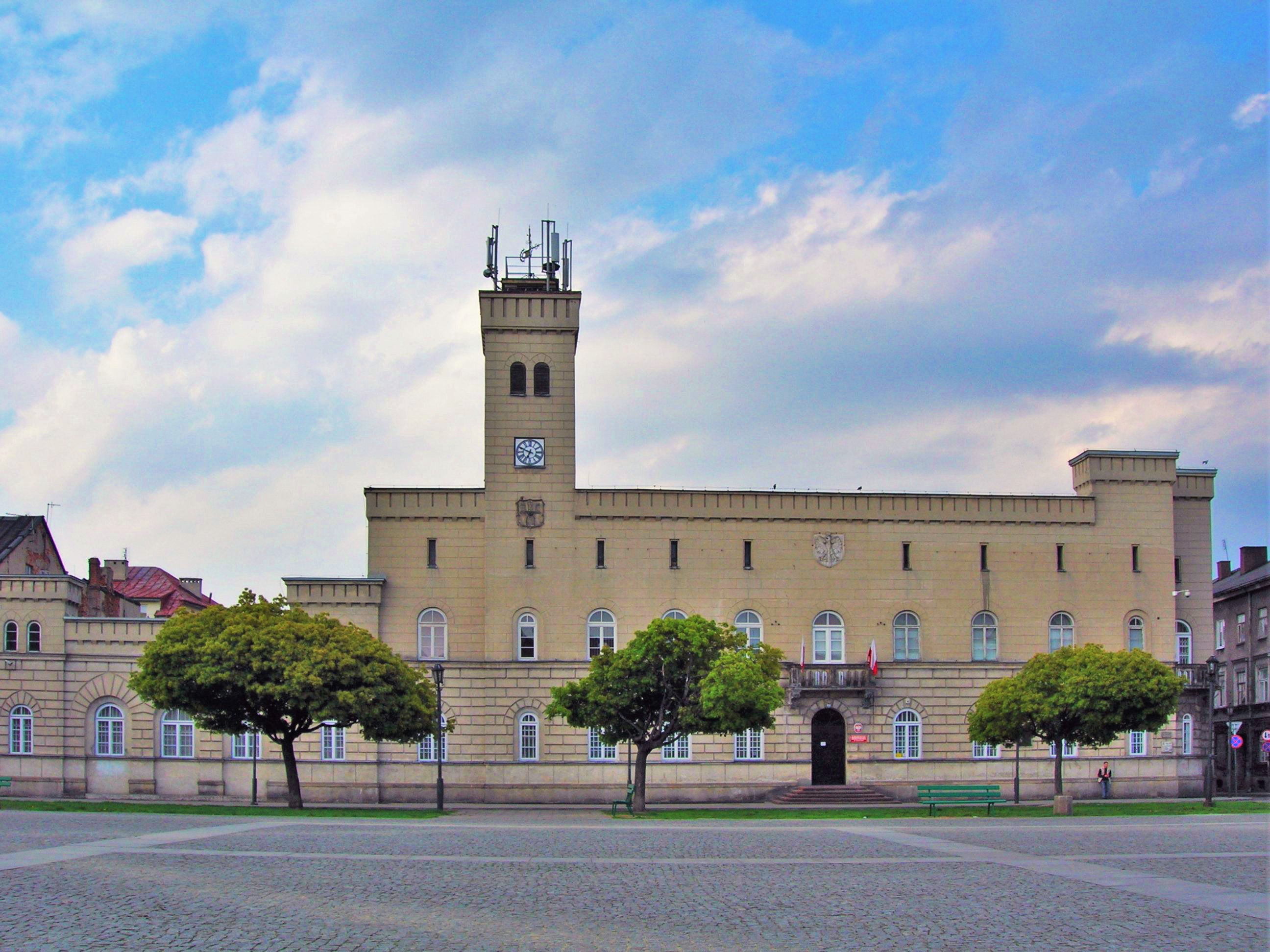 Radom - Old City Hall.